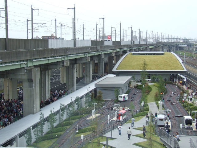 The Railway Museum in Saitama, Saitama Prefecture, Japan